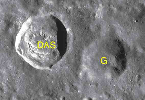 Part of the chart LAC-106 used for the presentation